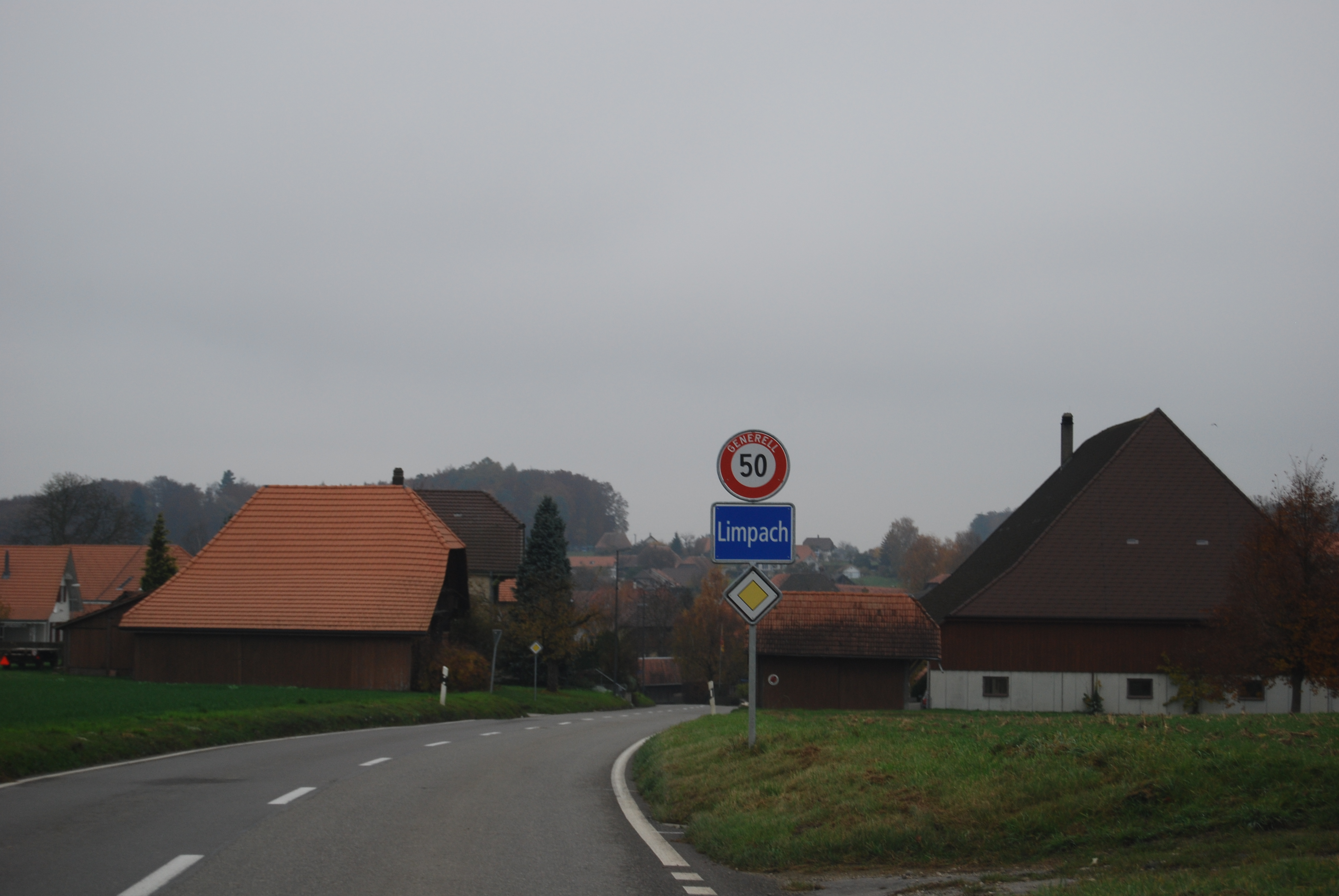 Limpach, canton of Bern, Switzerland